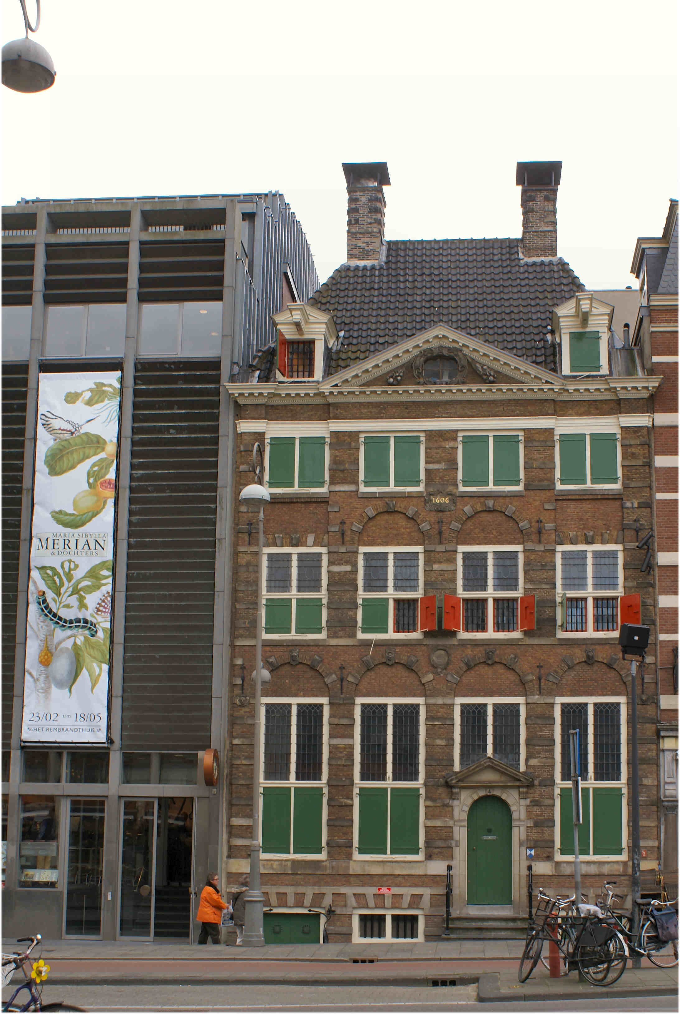 House of of Rembrandt, Amsterdam